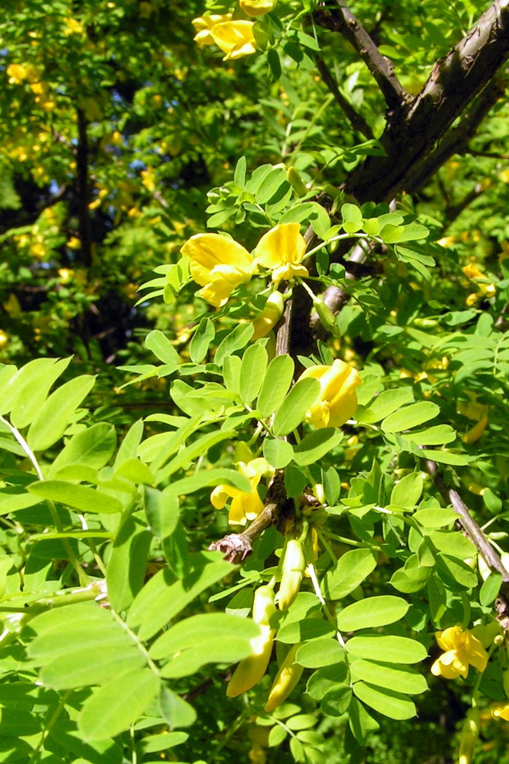 Caragana boisii in the Botanical Garden of the University of Vienna